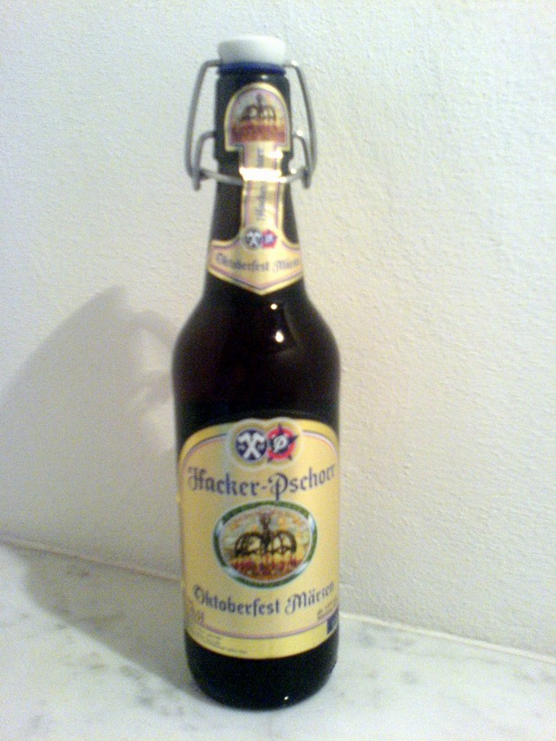 Hacker-Pschorr bottle